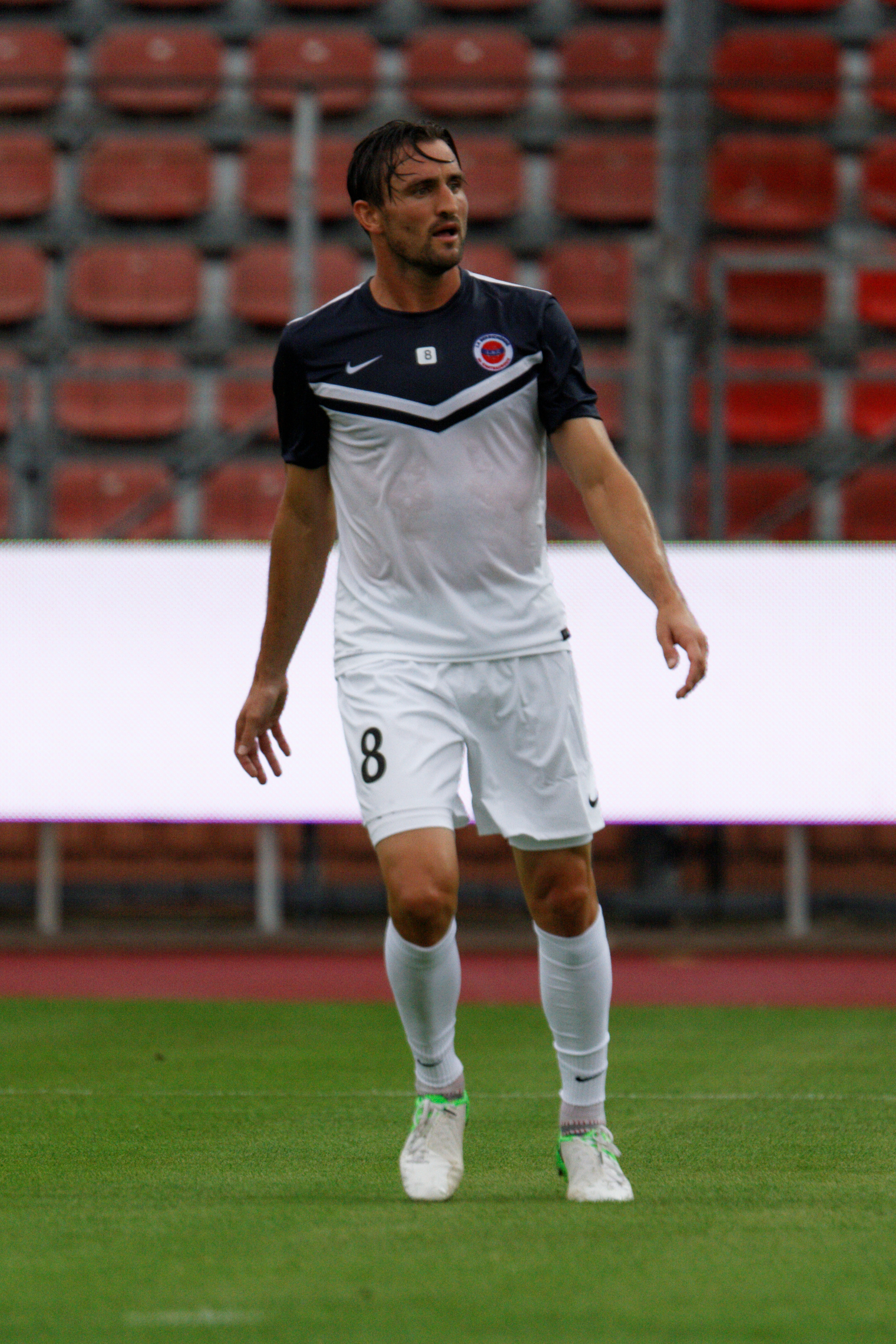 Créteil vs Châteauroux, 8th August 2014.